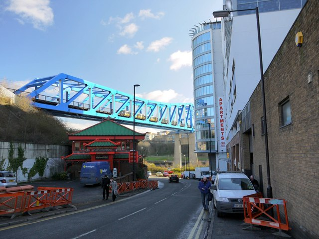 Queen Elizabeth II Metro Bridge From the bottom of Forth Banks On the left is the Pagoda-style Waterside Palace Chinese restaurant.